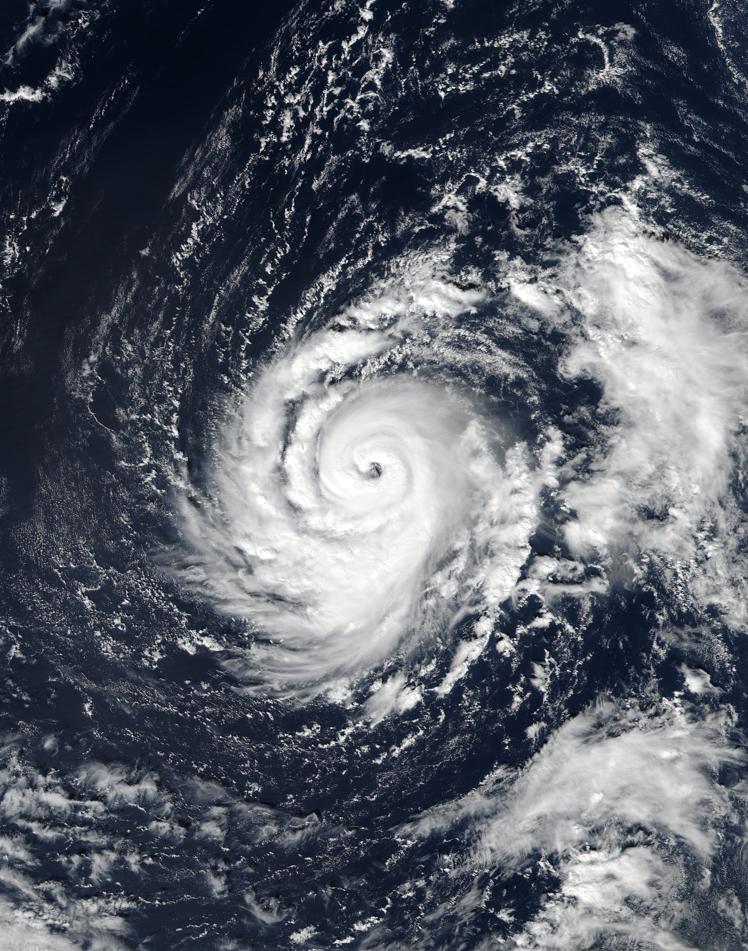 Hurricane Ophelia (17L) in the Atlantic Ocean